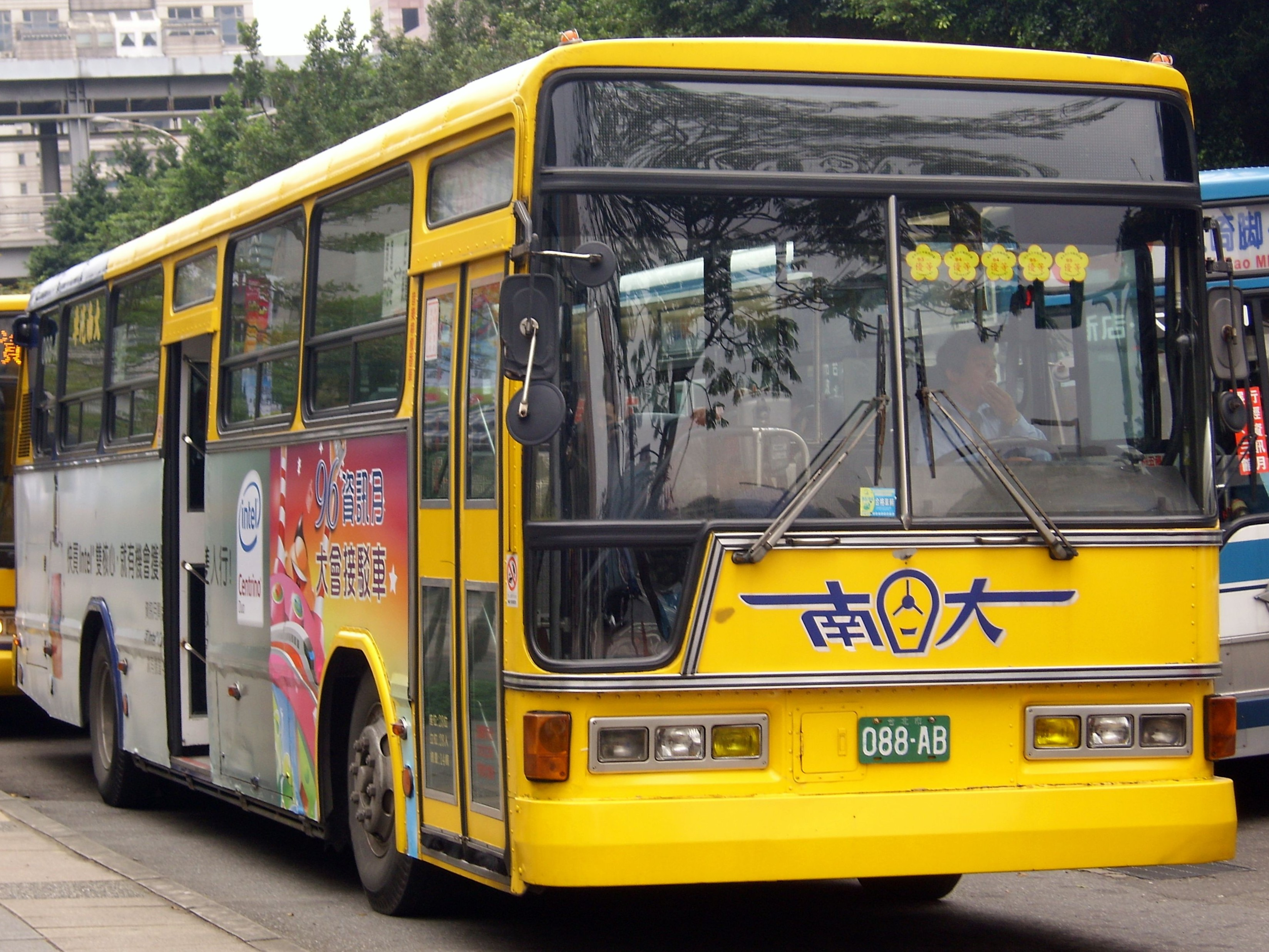 2007 Taipei IT Month: Shuttle Bus by Da-nan Bus Co., Ltd.